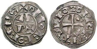 France, Counts of Béarn. 905-1134. AR Denier (0.85 gm). Centulle mint. COME CENTVLLO, cross pattée, pellet in 2nd and 4th quadrant +ONOR FORCHS, PAX in monogram, read clockwise from left. Poey d'Avant 3233; Boudeau 525. Good VF, toned.